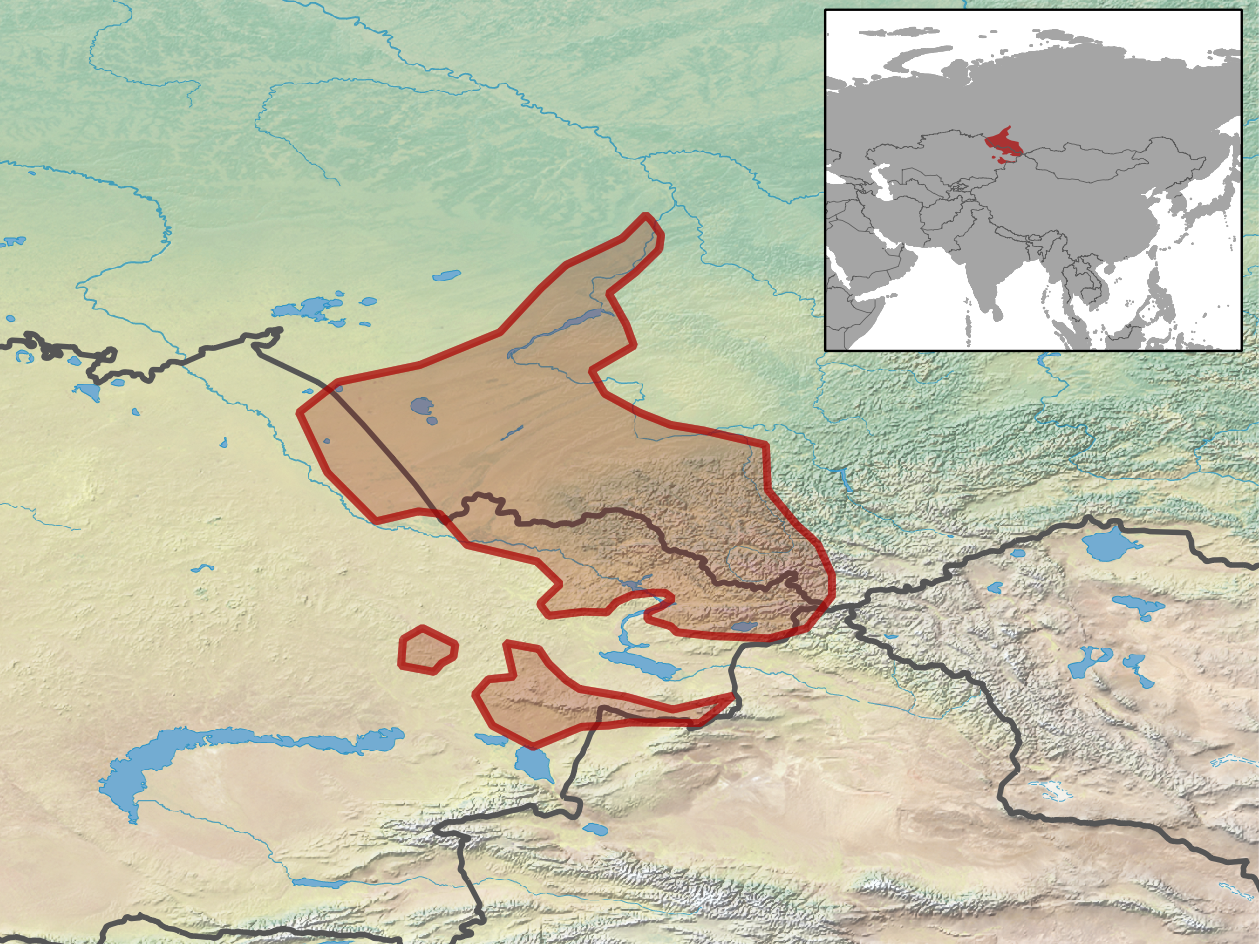 Geographic distribution of the Siberian zokor (Myospalax myospalax).